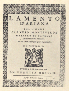 Front sheet of the music for Claudio Monteverdi's "Lamento D'Arianne" (Arianna's Lament), published in Venice in 1623.